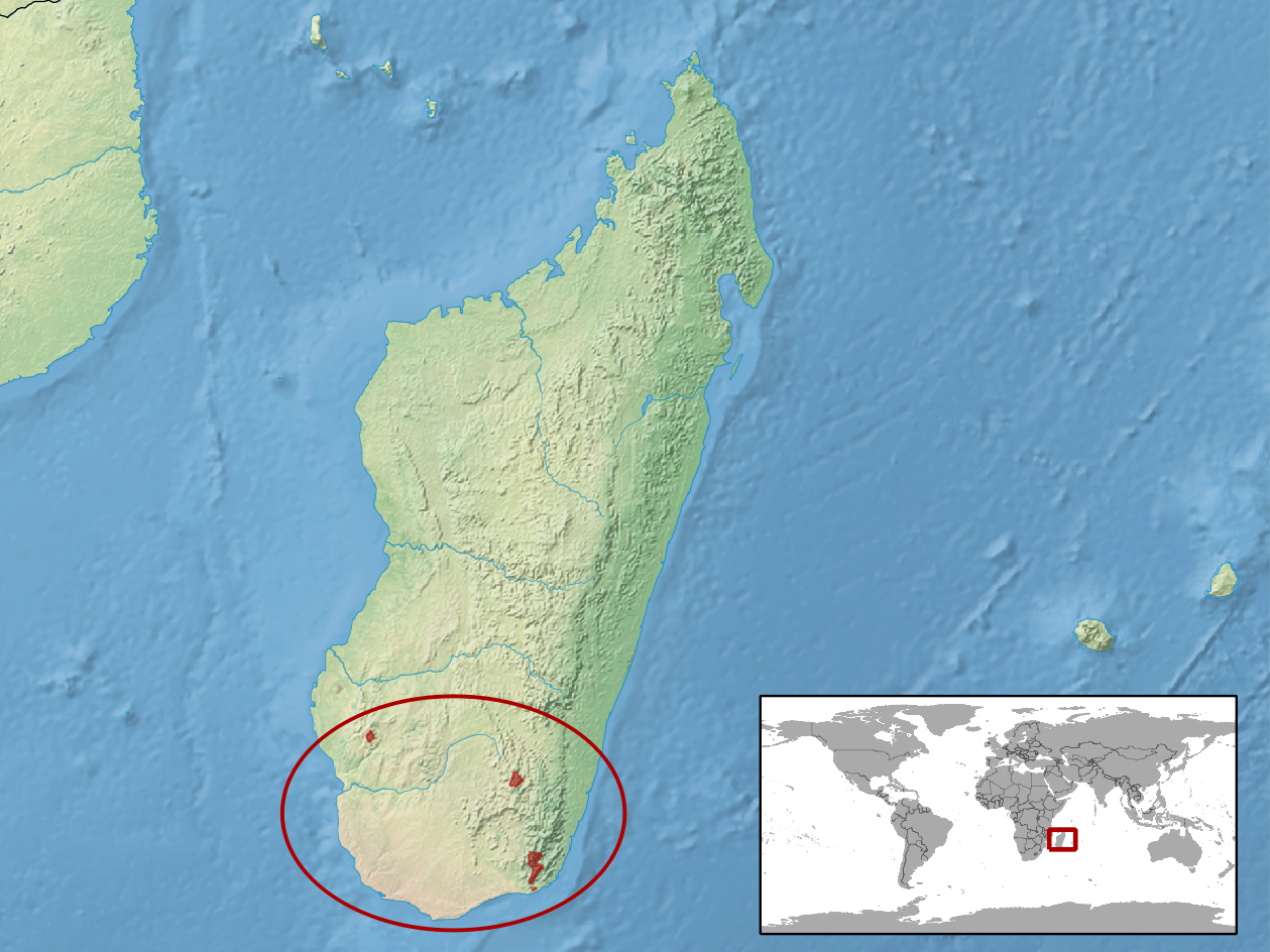 geographic distribution of Uroplatus malahelo (Native: Madagascar)